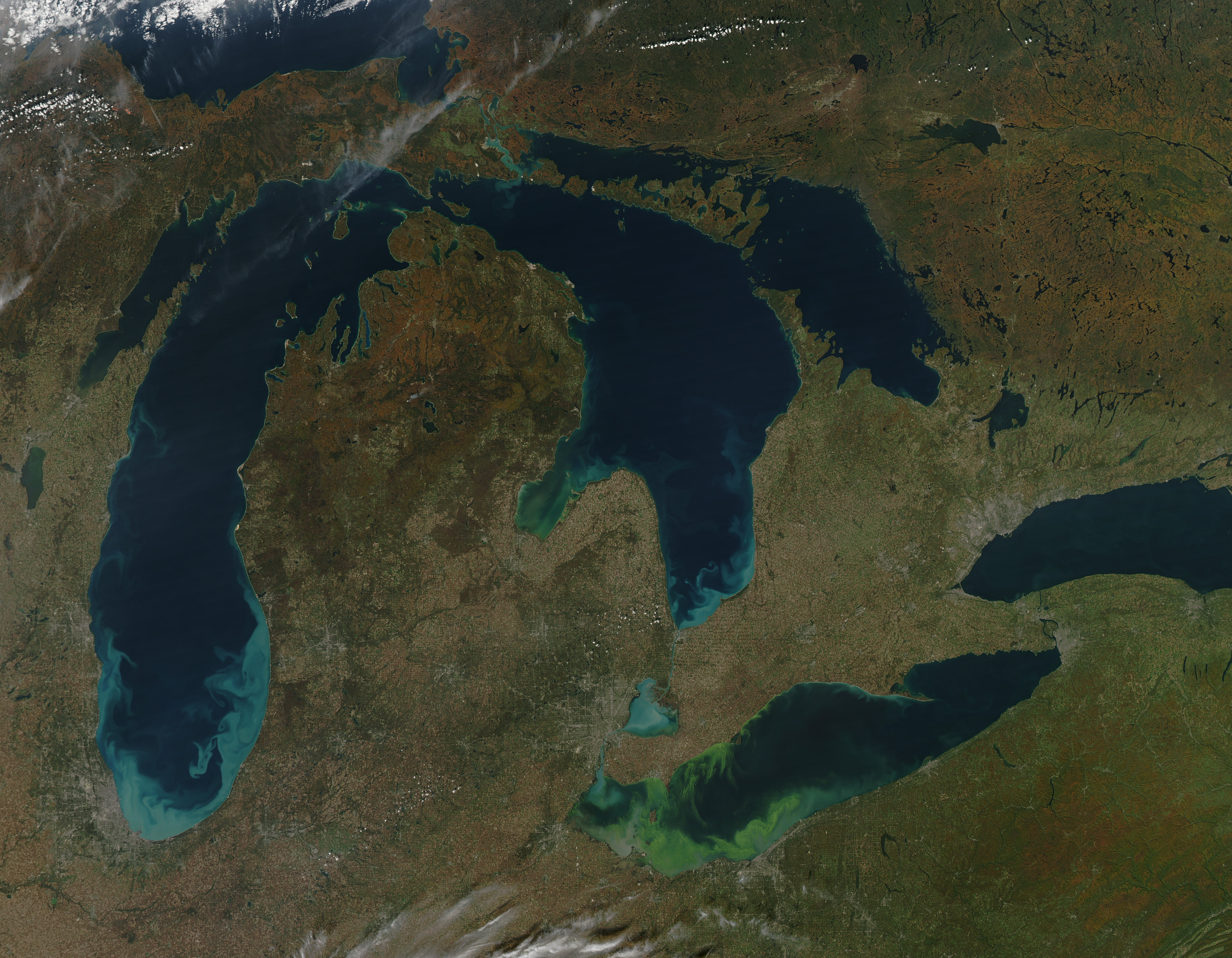 The brilliant streaks of blue and green that colour the Great Lakes in this image are a contradiction. The blue in Lake Michigan and Lake Huron is sediment brought to the surface when strong winds churned the lakes. The green in Lake Erie and in Lake Huron’s Saginaw Bay is algae, which builds on the surface when winds are calm. This image was captured a little more than a week after a persistent mid-latitude cyclone moved out of the region. Some of the pale blue in Lake Erie may be sediment, but the green is an extremely large algal bloom. The algae may have initially spread across the western side of the lake because of windy weather, but calm weather and warm temperatures after the storm allowed green scum to build on the surface, says Colleen Mouw, a researcher at the University of Wisconsin-Madison. The bloom now covers much of the western half of the lake. “This is considered the worst bloom in decades,” says Stumpf. The green in Saginaw Bay is probably an algal bloom as well. The display of color isn’t limited to the lakes. Touched by autumn, the forests around the lakes have turned orange.